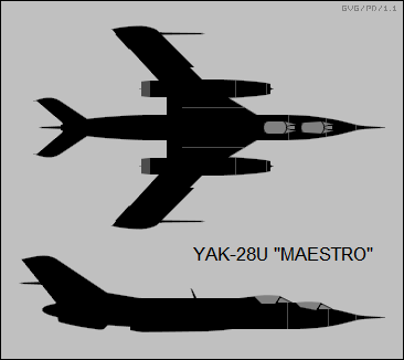 Plan-view silhouettes of the Yakovlev Yak-28U